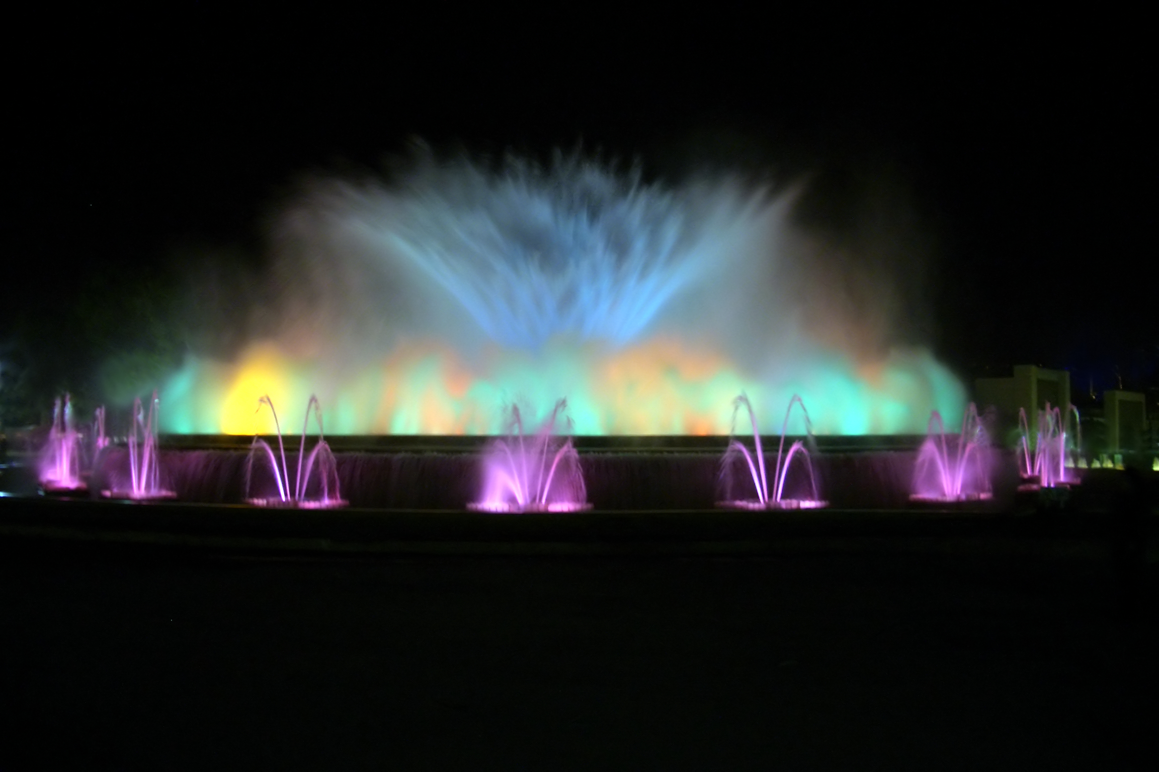 Magic Fountain of Montjuïc